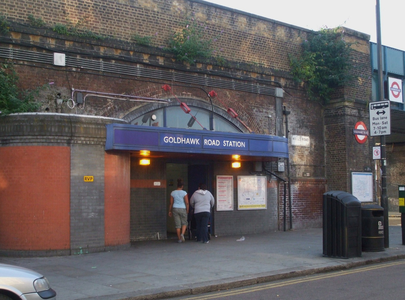 Goldhawk Road tube station eastern entrance